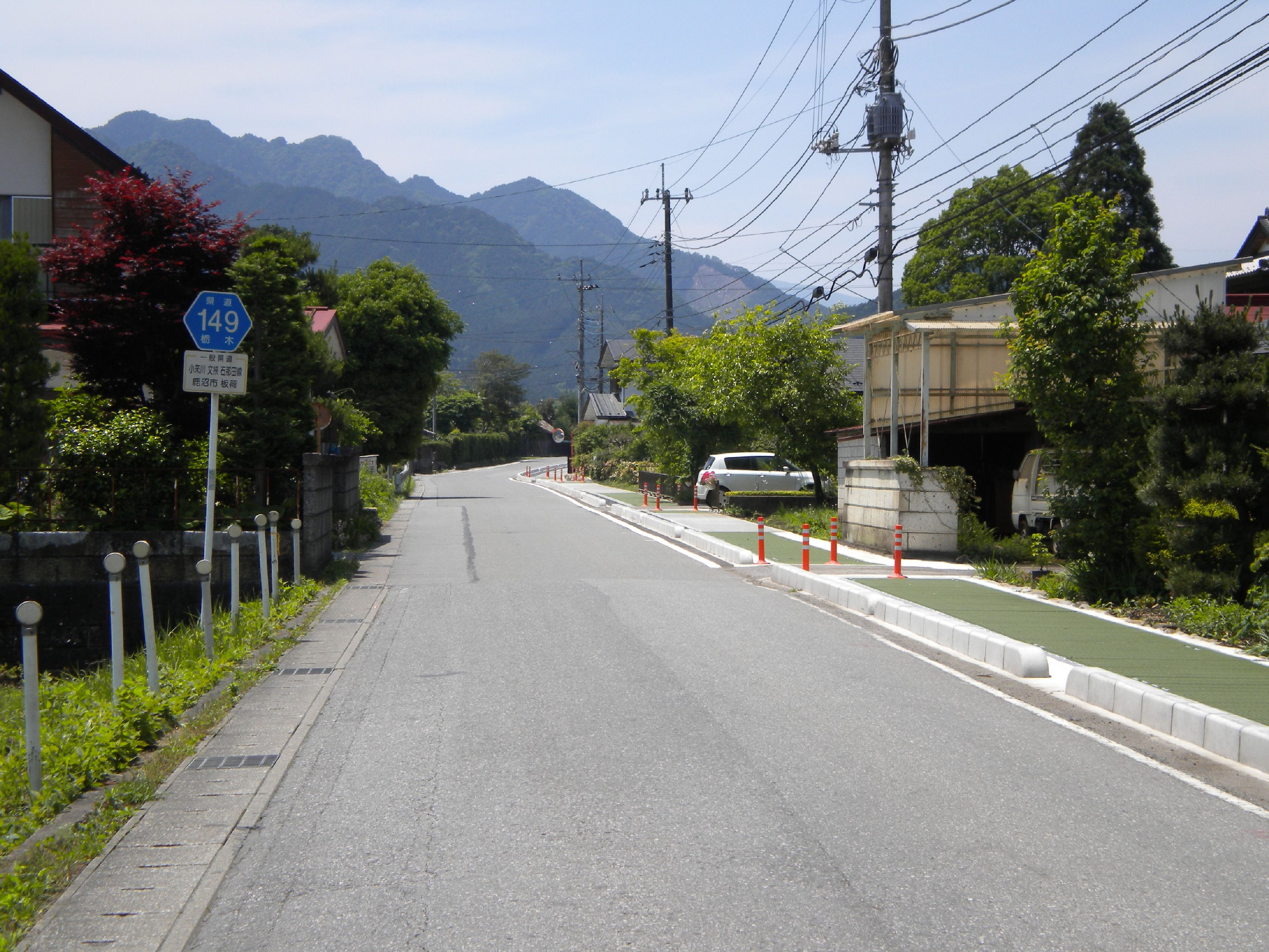 The Tochigi Prefectural Road Route 149 in Itaga, Kanuma City